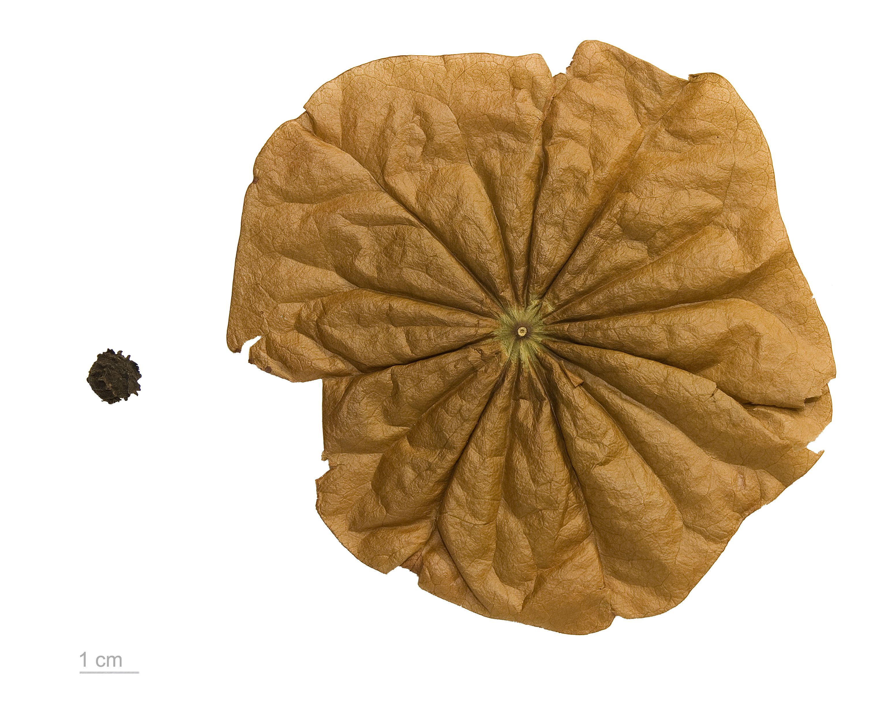 Chaunochiton kappleri, fruits and seeds